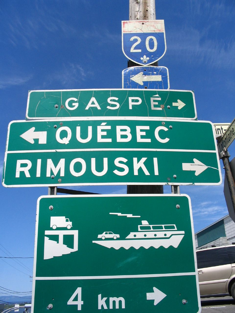 Road sign indicating directions to Gaspé-Rimouski-Québec on Lafontaine Street in Rivière-du-Loup, Quebec.